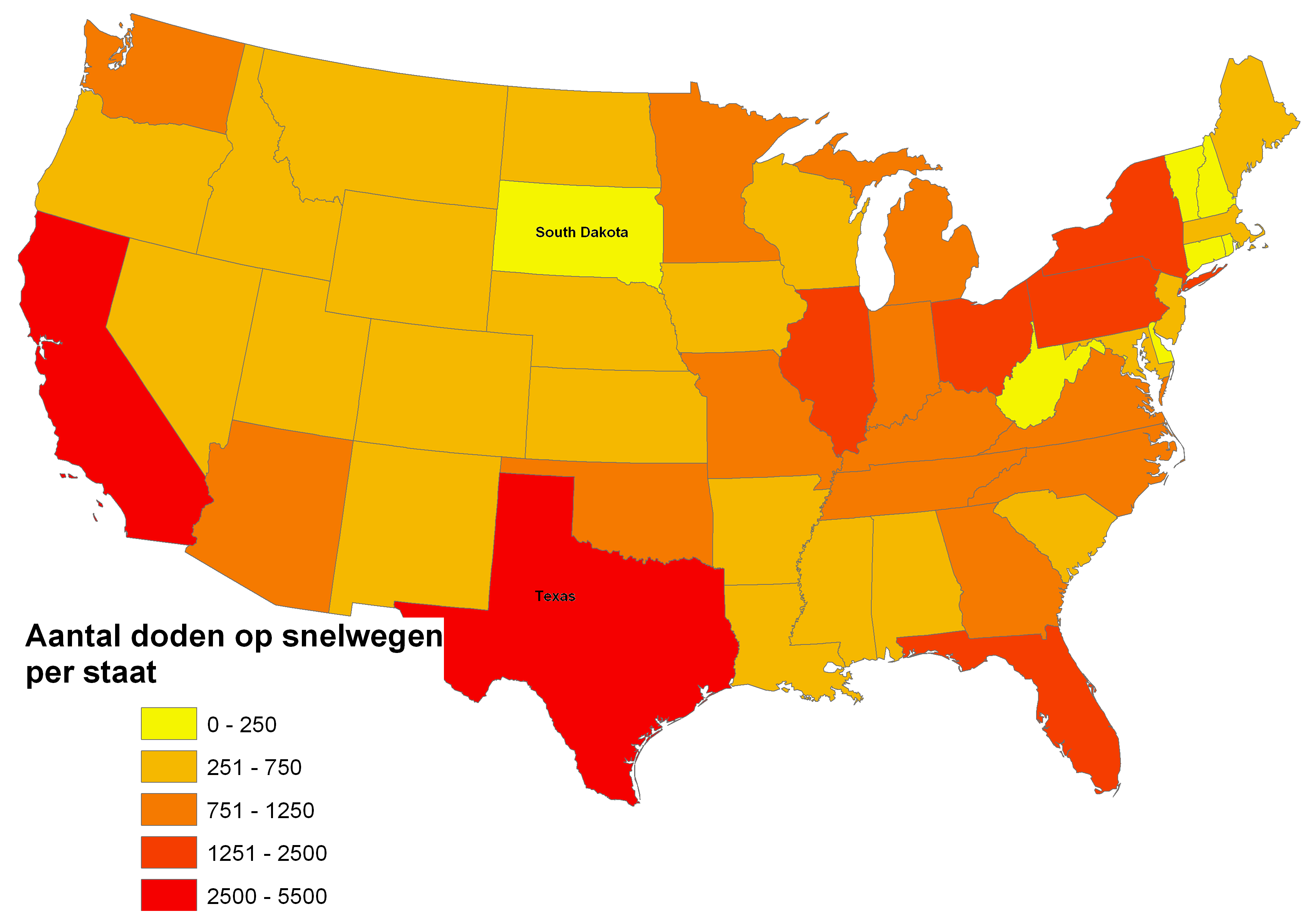 Map of the number of traffic deaths on freeways/interstates in the United States. The distribution of the deaths to specific roads is fake, but based on the actual number of deaths (42,636) in 2004, and a road length of 50,000 miles. For the sake of example, the deaths have been allocated to the states based on a formula that's unlikely to match reality. Thus, this may be a useful example of a particular style of map, but not very useful for illustrations of the United States.